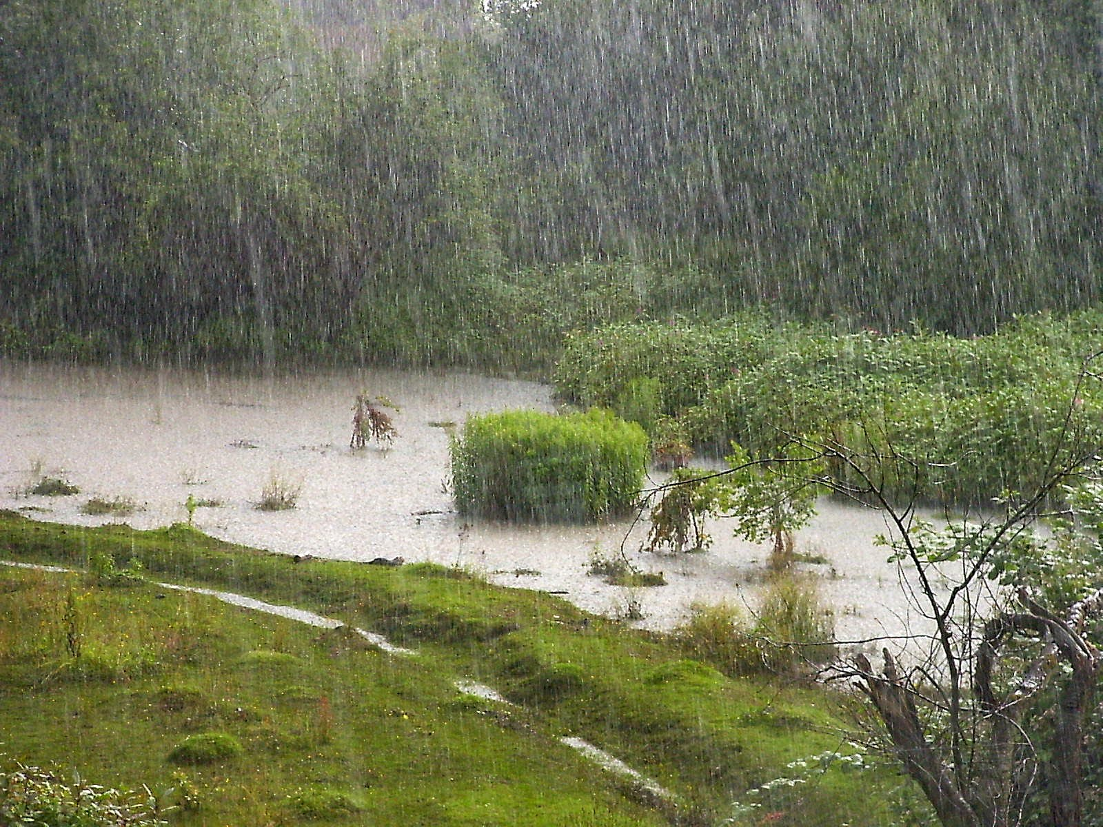 Summer rain